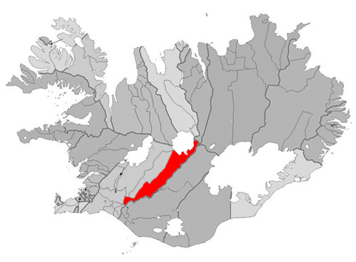 Based on Municipalities of Iceland.png.